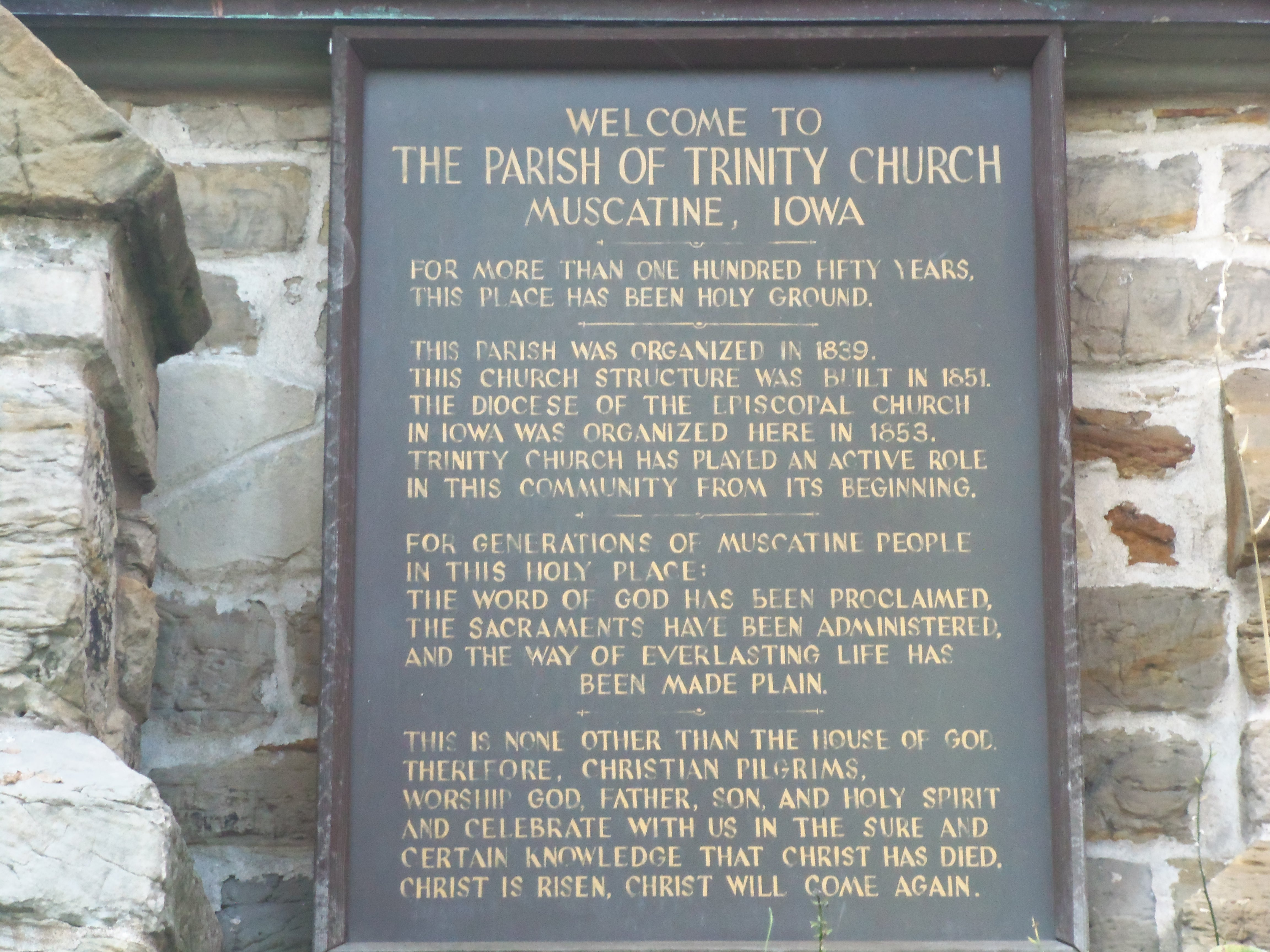 Historic plaque on Trinity Episcopal Church in Muscatine, Iowa.